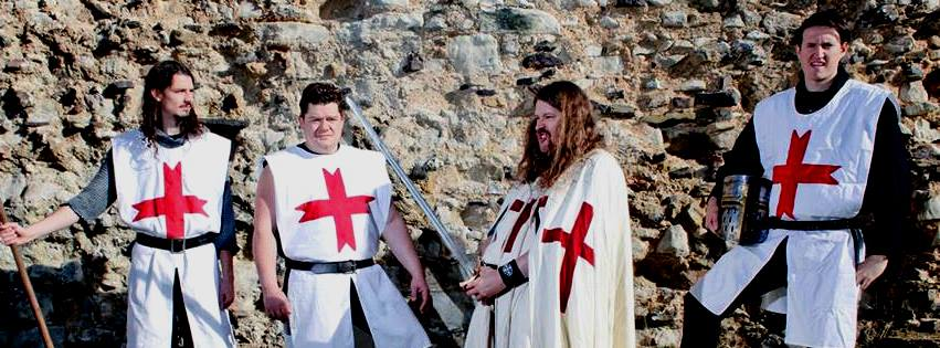 Lineup